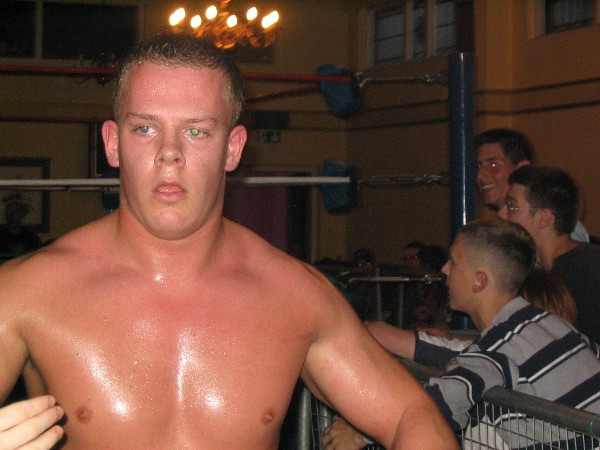 James Tighe at FSW Future-Shock 1 on August 14, 2004 at the Stockport Guild Hall, Stockport.